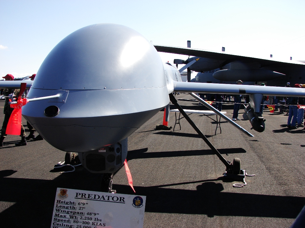 Close up view of Predator at Reno Air Show. Author: Carlos Ponte